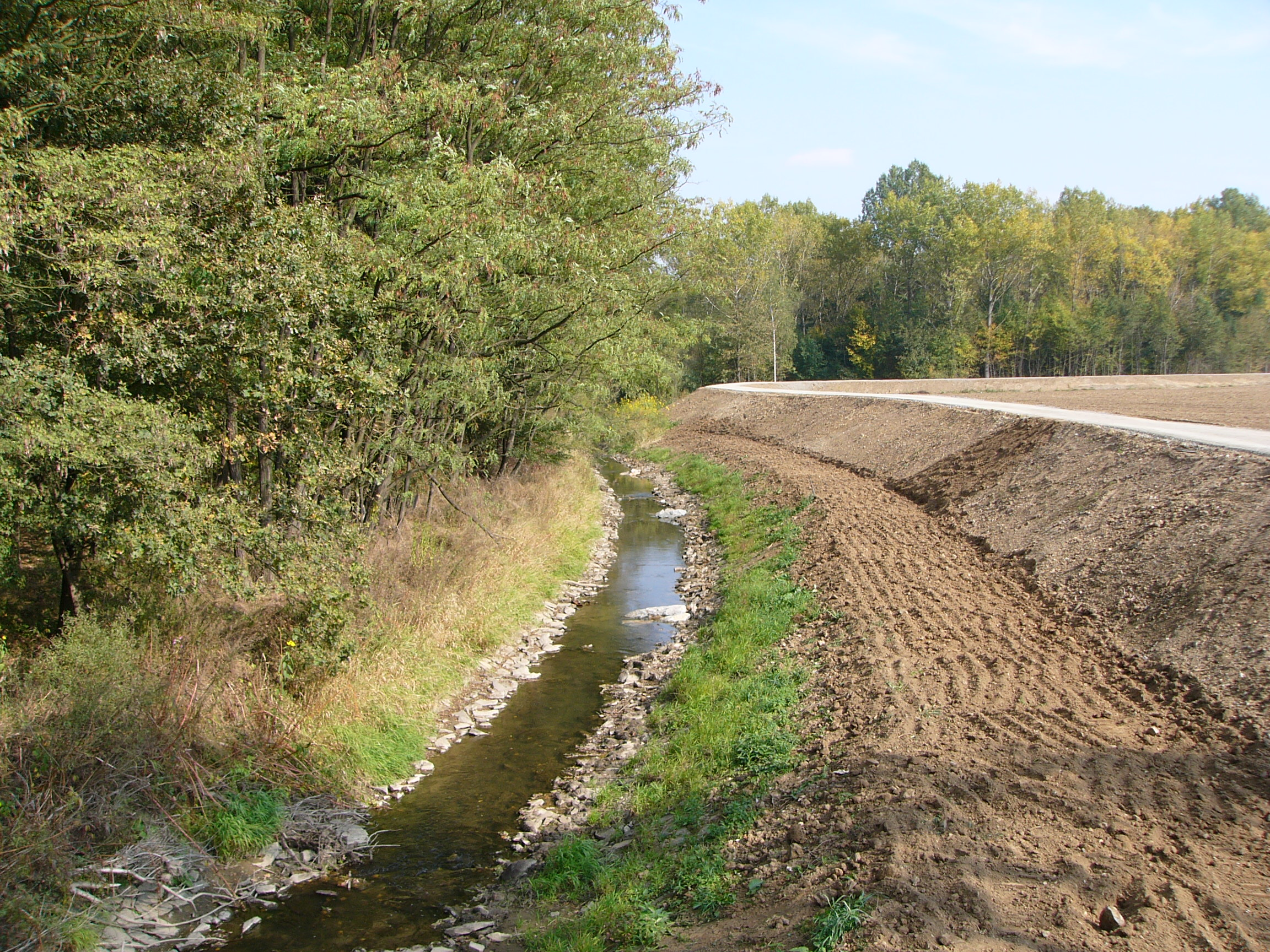 Dry dam generally called Selská hráz in Czech in Litovelské Pomoraví protected landscape area north from Horka nad Moravou (Czech Republic). After building (reconstruction) in 2004.